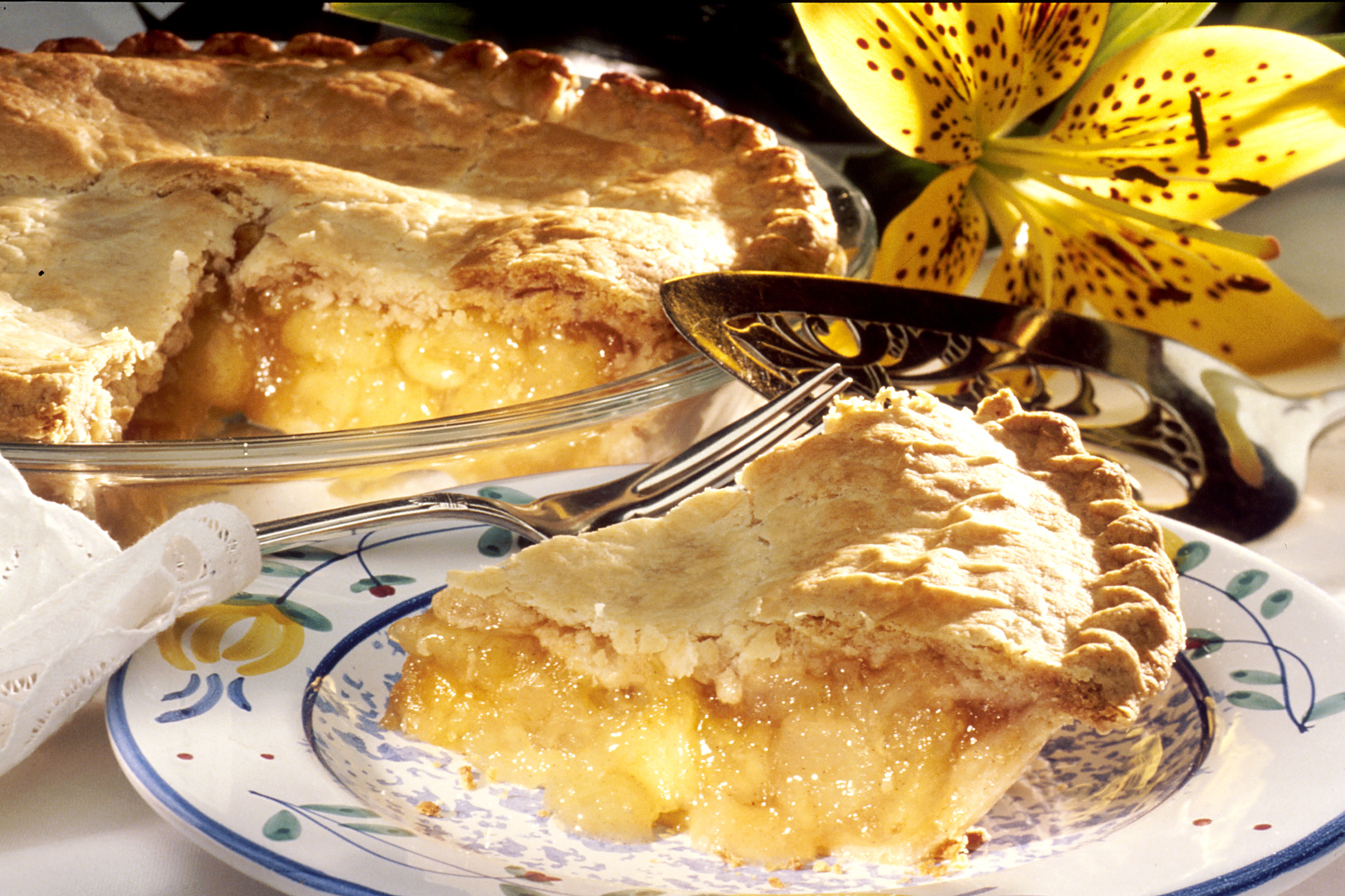 Shown is an apple pie with a single slice removed, and the removed slice on a plate in the foreground and a lily lying nearby.